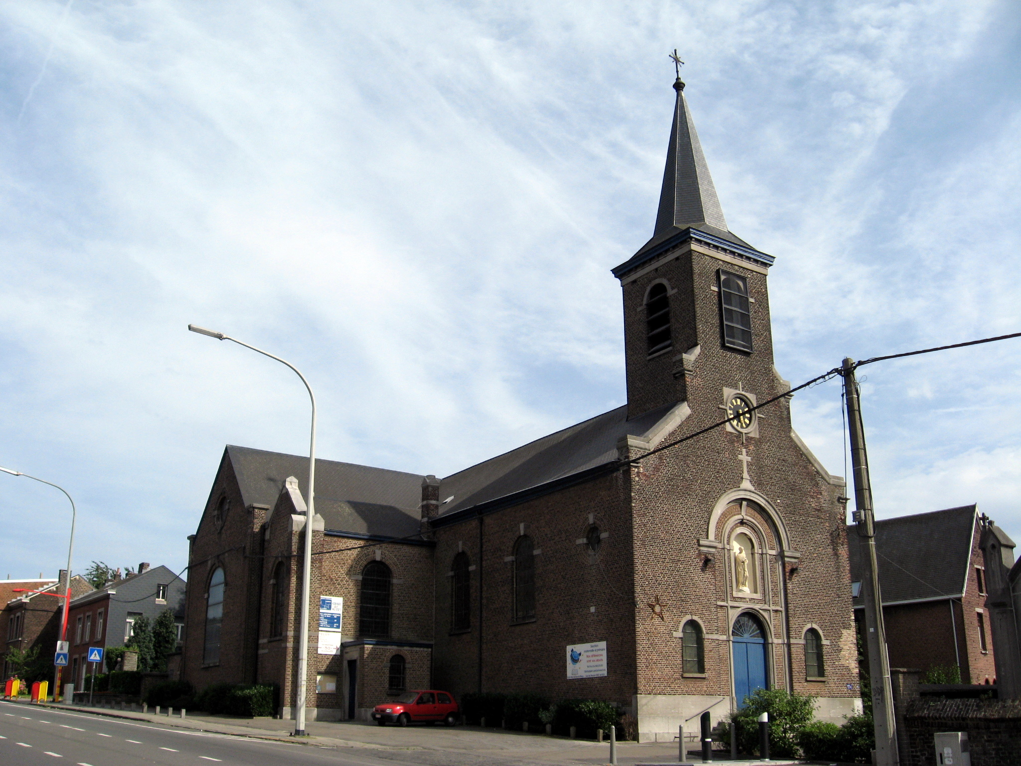 Church of the Immaculate Conception of Mary in Bois-de-Breux, Grivegnée, Liège, Liège, Belgium